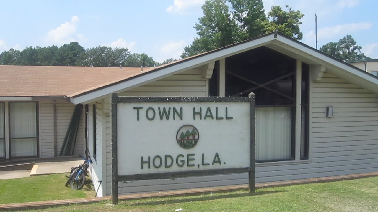 MVI_2671_Hodge_Town_Hall, Hodge, LA